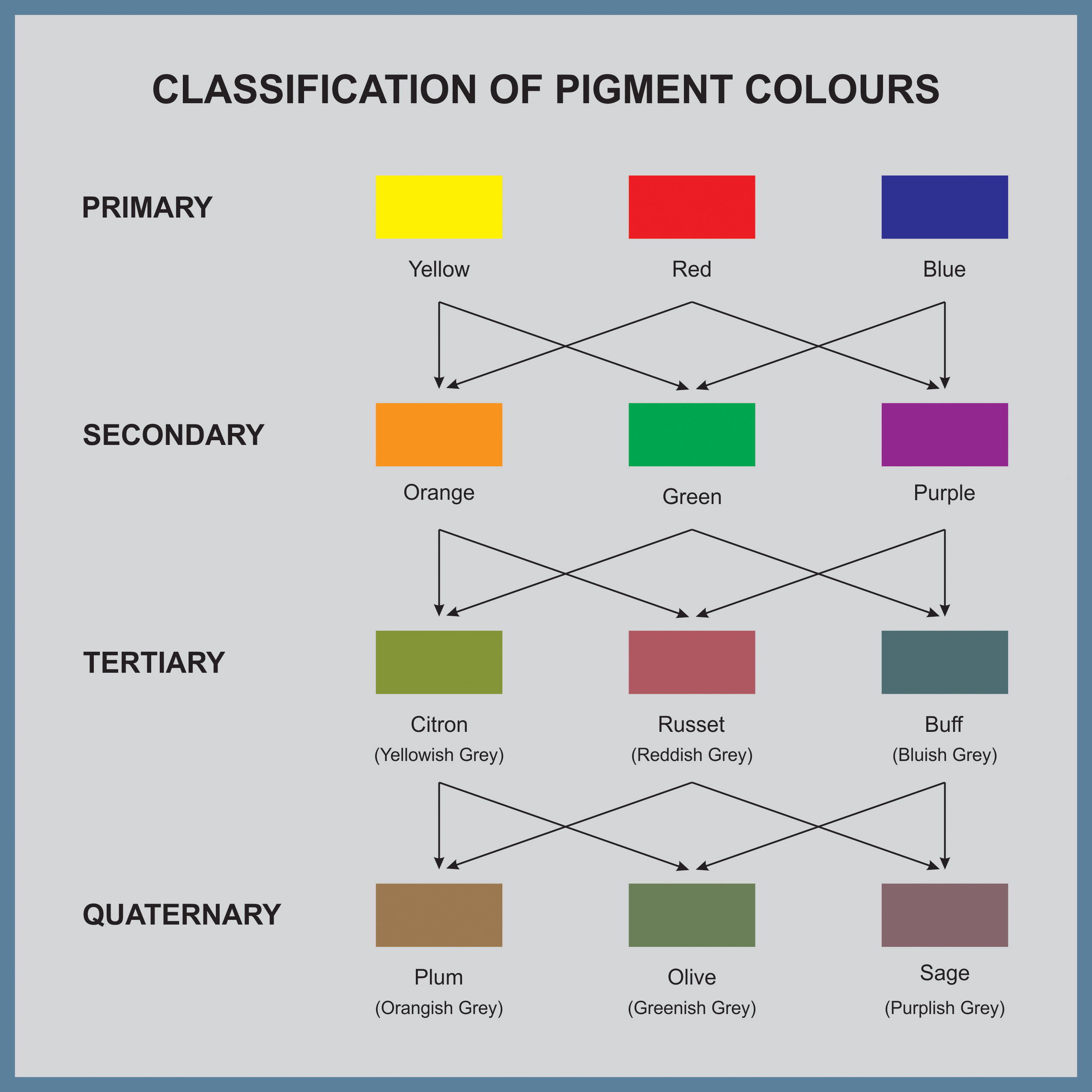 There are ‘Light’ (Colours of Light, RGB Colour Model – Additive Colour Mixing Method) & ‘Pigment’ (Colours of Pigment, RYB Colour Model – Subtractive Colour Mixing Method) Colours. Here we are talking about ‘Pigment Colours’. ‘Pigment Colour’ means any ‘Paint colour’ (which is made up of ‘Pigment’ & which can be in dry powder, paste or liquid form) we use for painting our picture. Acrylics, Water Colours, Poster Colours & Oil Colours are the most commonly used ‘Pigment Colours’ by many Drawing & Painting Artists. For more information you can visit